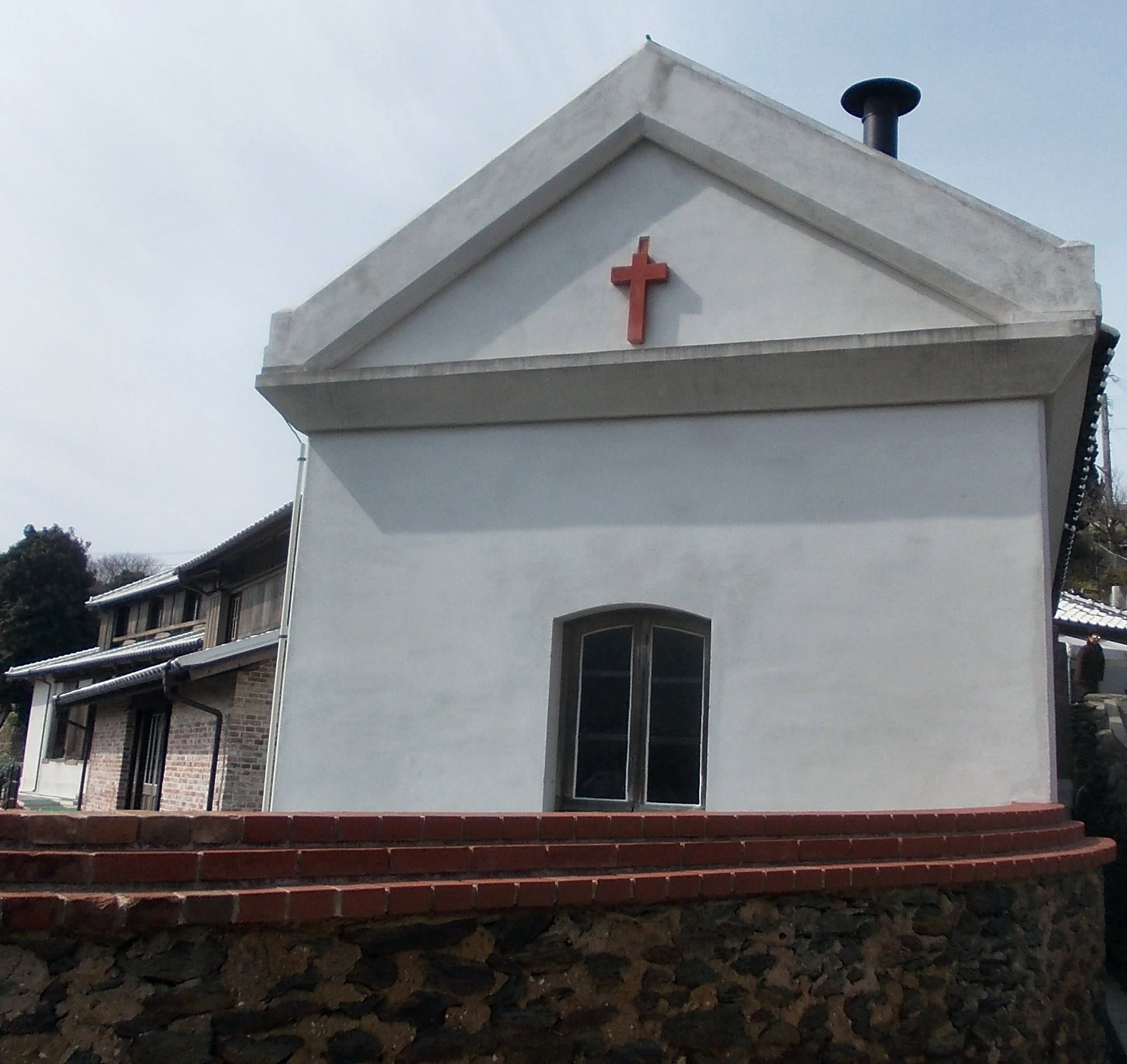 Former Shitsu Aid Center, Nagasaki, Japan